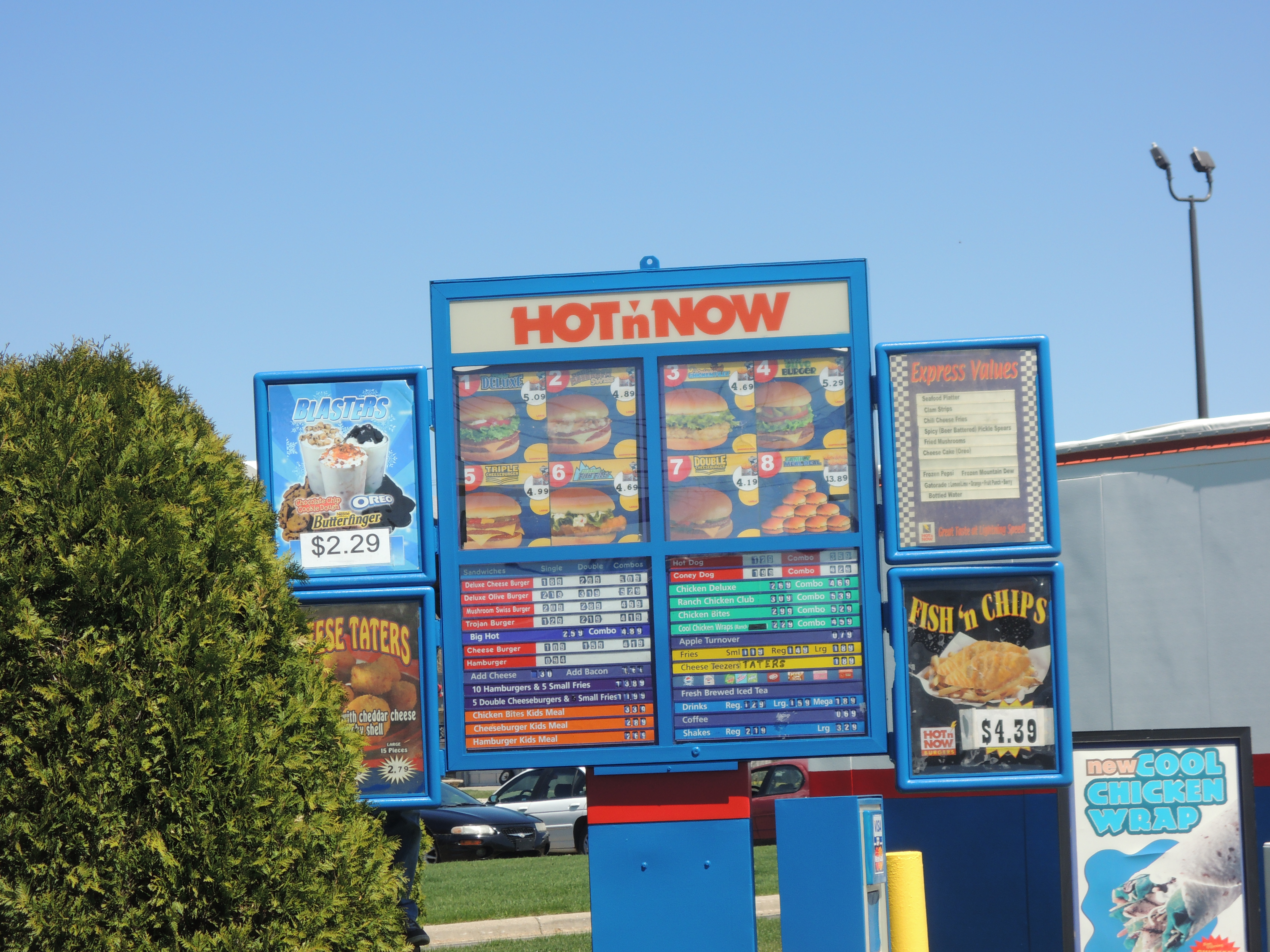 Drive Thru Menu as of April 26, 2014 at Hot n Now currently operating in Sturgis, Mi.